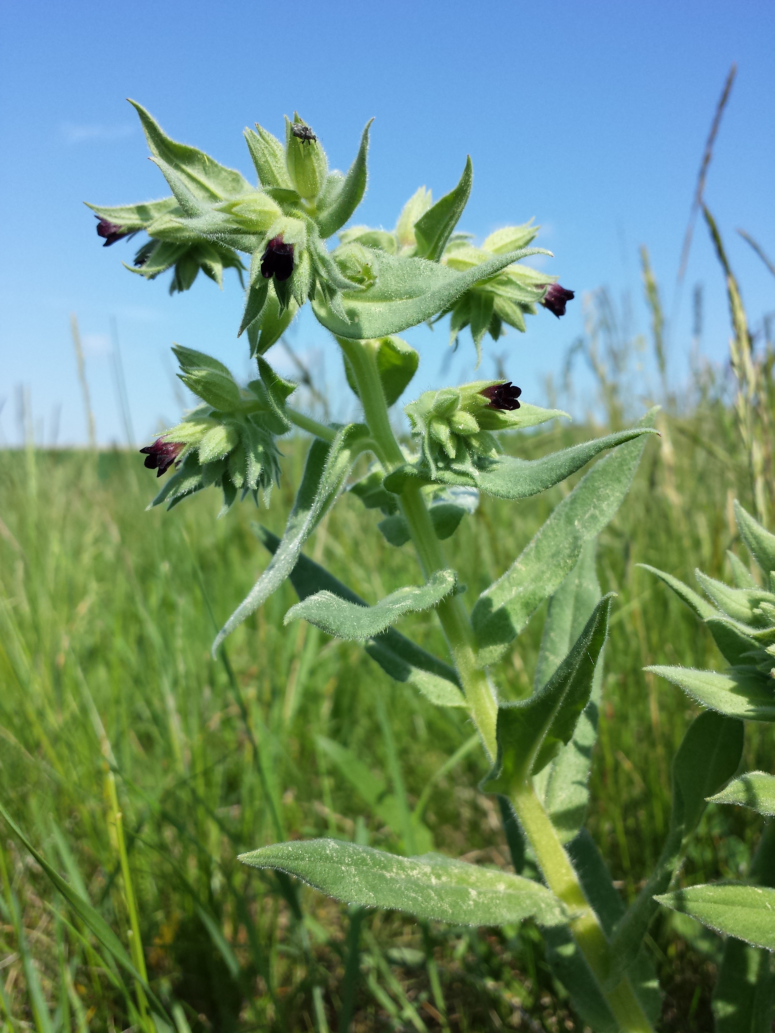 Inflorescence Taxonym: Nonea pulla ss Fischer et al. EfÖLS 2008 ISBN 978-3-85474-187-9 Location: "In der Hölle" near Wetzleinsdorf, district Korneuburg, Lower Austria - ca. 250 m a.s.l. Habitat: slope